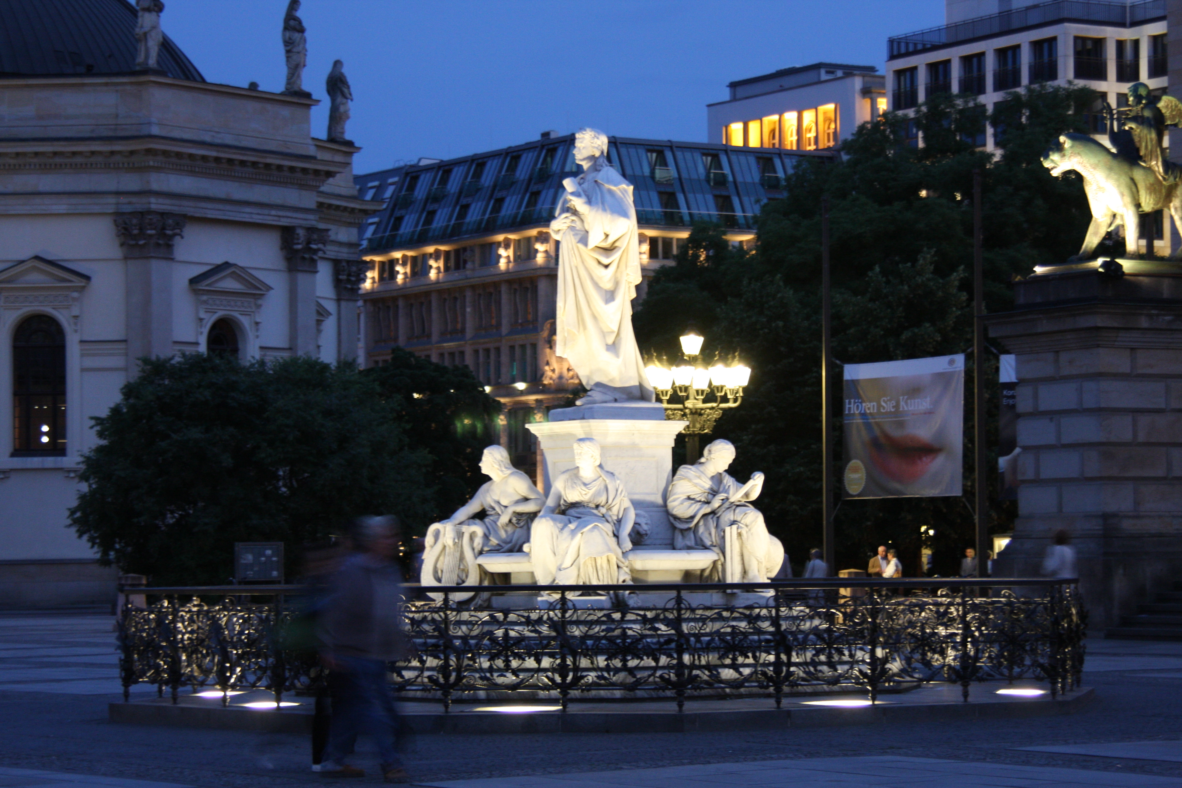 Wikipedia Academy 2008, Berlin Gendarmenmarkt